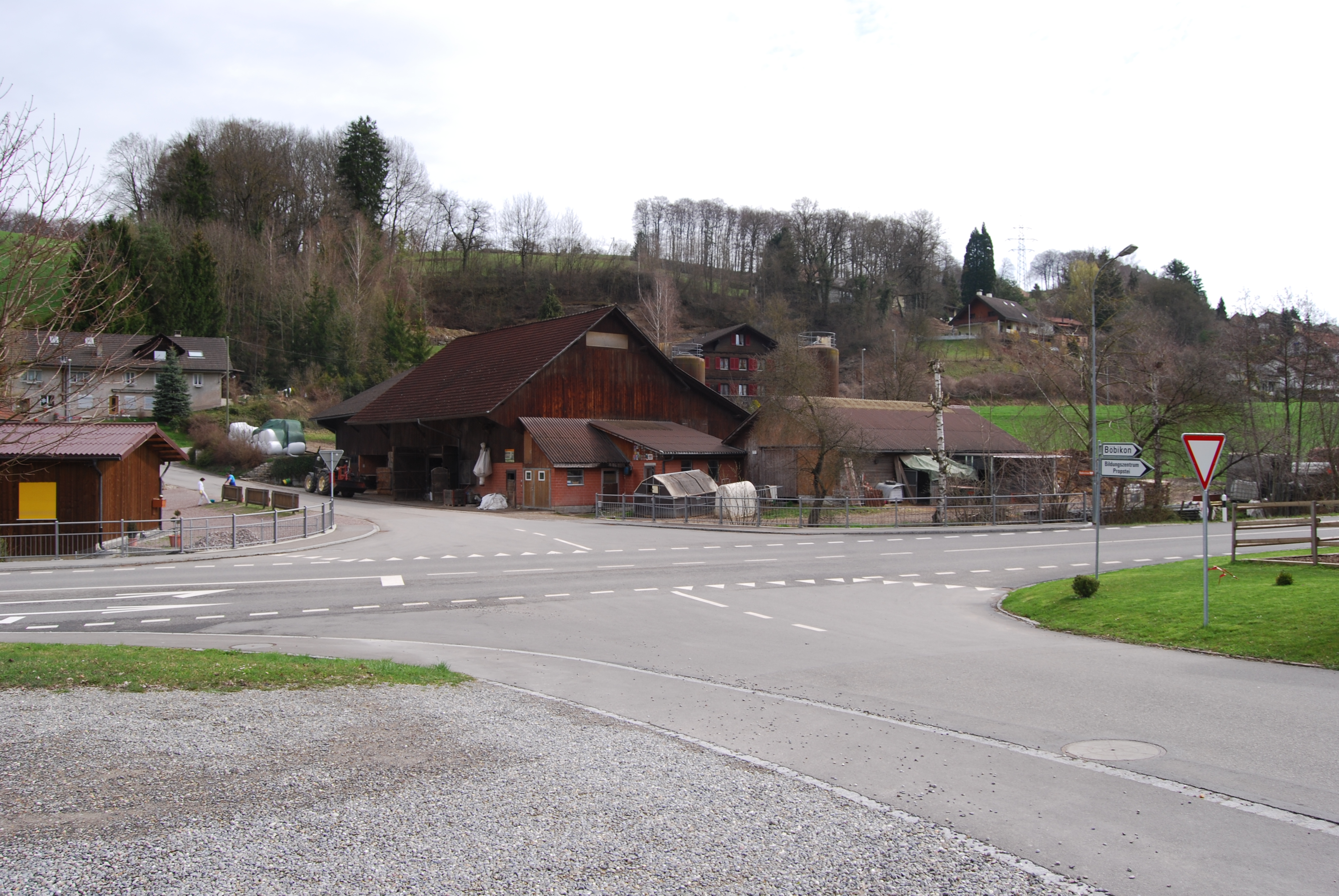 Wislikofen, canton of Aargau, SwitzerlandEsperanto: Wislikofen, Kantono Argovio, Svislando